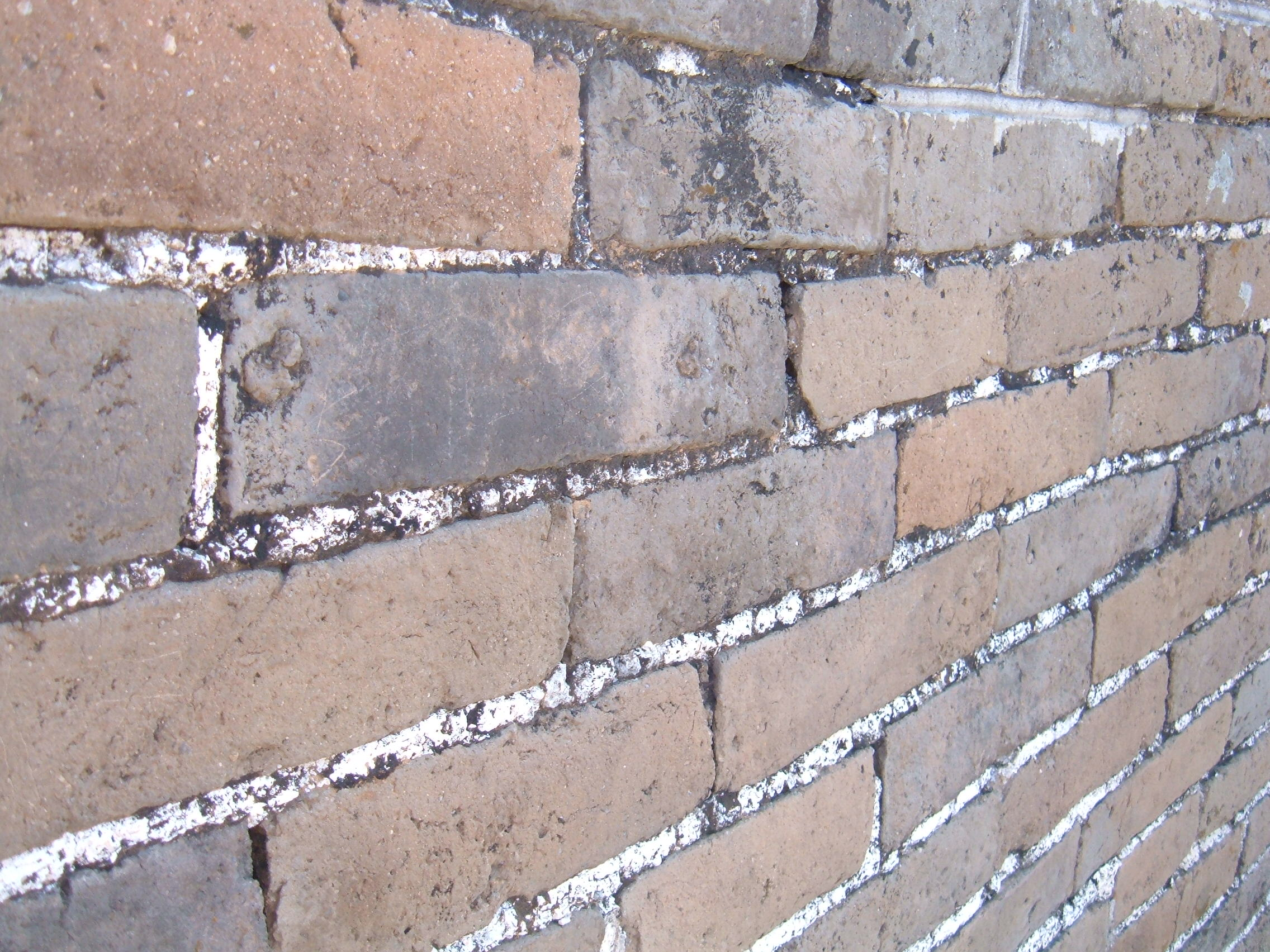 Detail of the bricks in the Great Wall at Mutianyu.